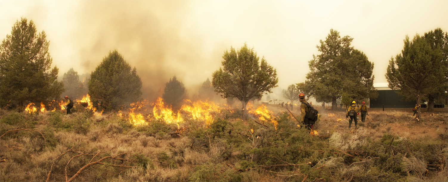 The Barry Point Fire, sparked by lightning, is located 22 miles southwest of Lakeview, Oregon, on the Fremont-Winema National Forest and private lands. For up-to-date info, notices, and maps